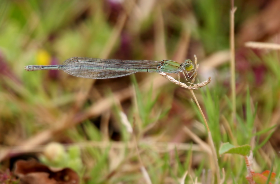 Saffron-faced Blue Dart Pseudagrion rubriceps in Hyderabad, India.